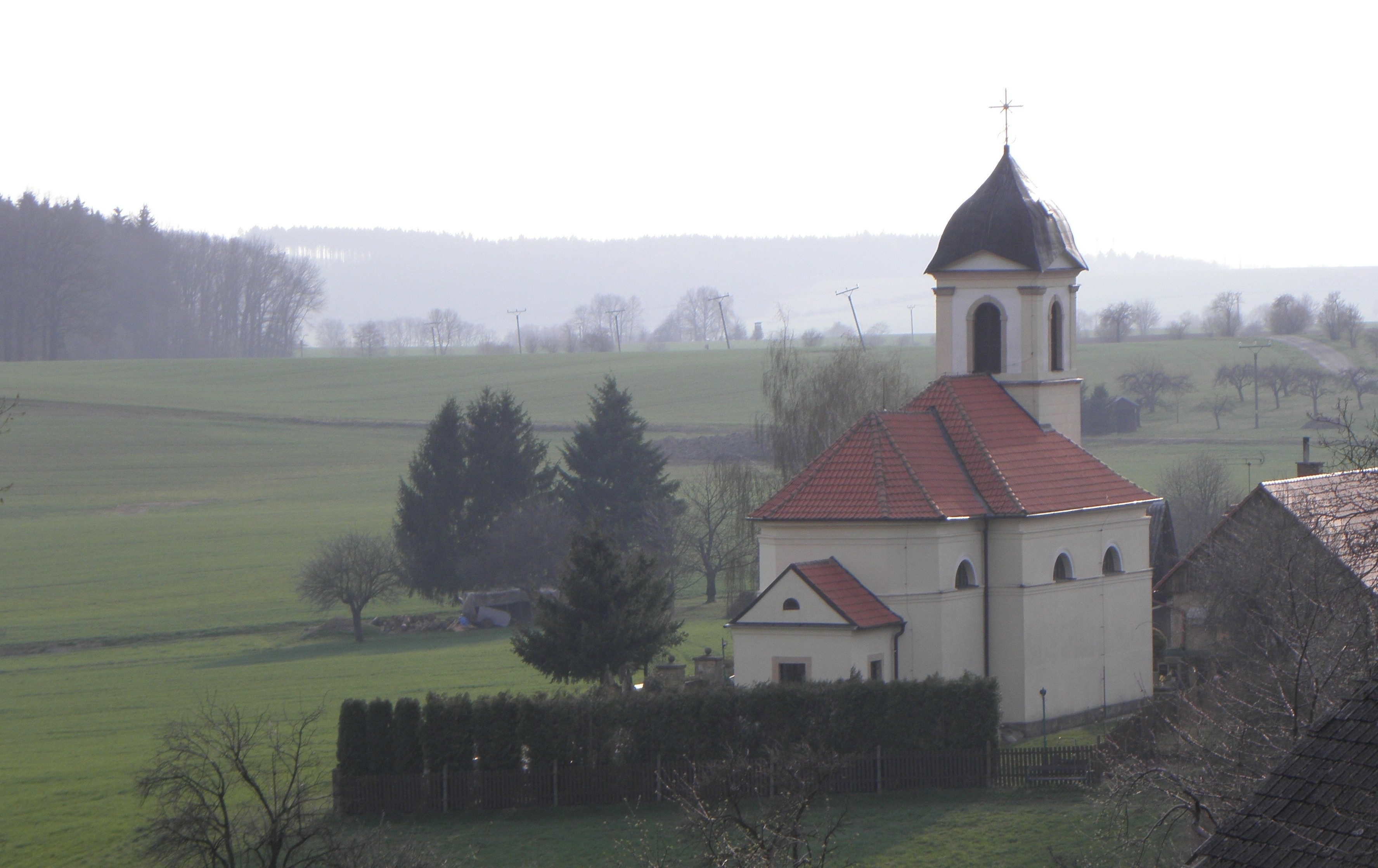 Church of Saint George in the village Hřídelec, an administrative part of the town Lázně Bělohrad, Jičín District, the Czech Republic.